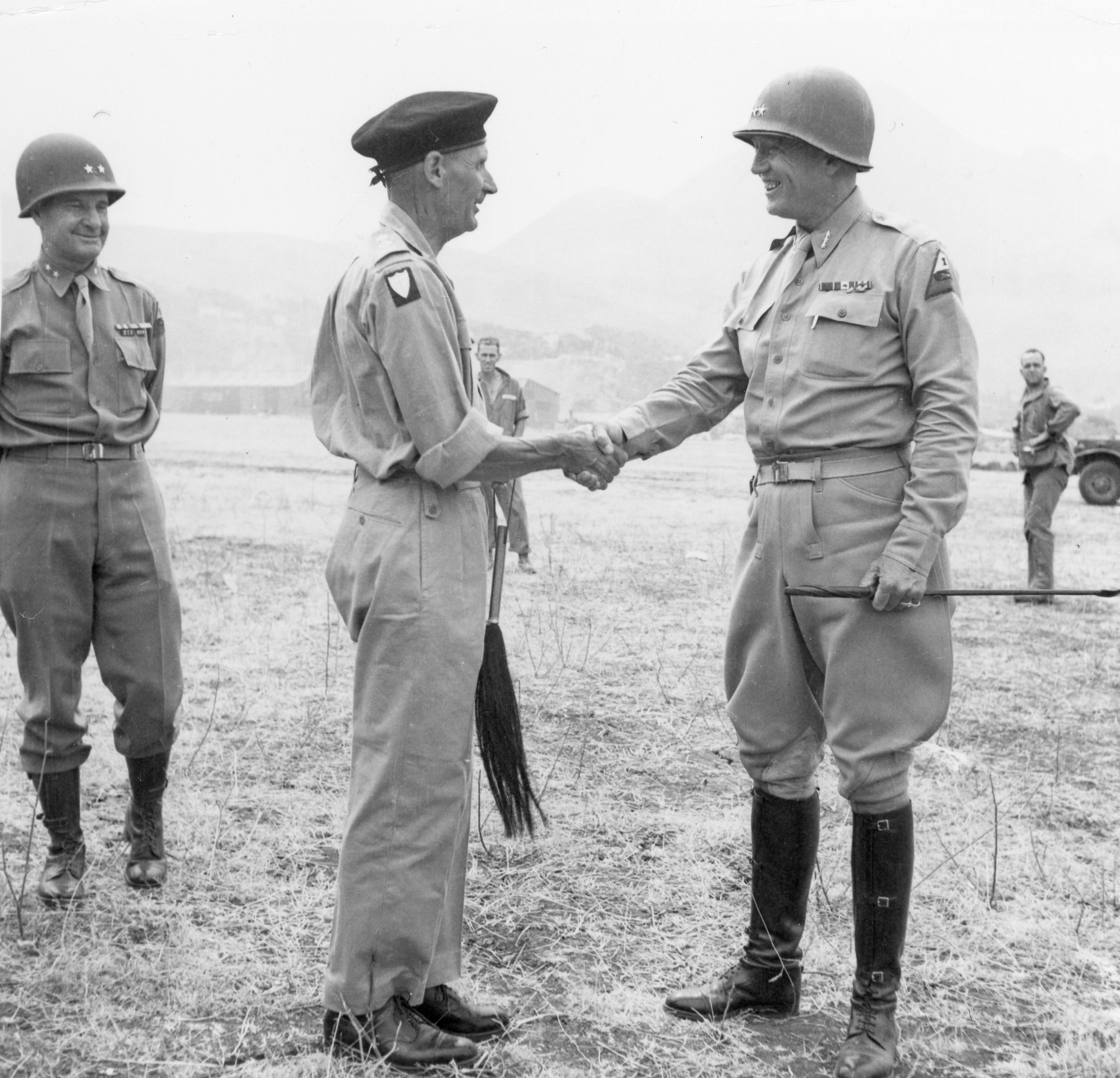 World War 2 - Gen. Bernard Law Montgomery is bid a jolly farewell by Lt. Gen. George S. Patton, Jr., at the Palermo, Sicily airport after a visit by Gen. Montgomery.